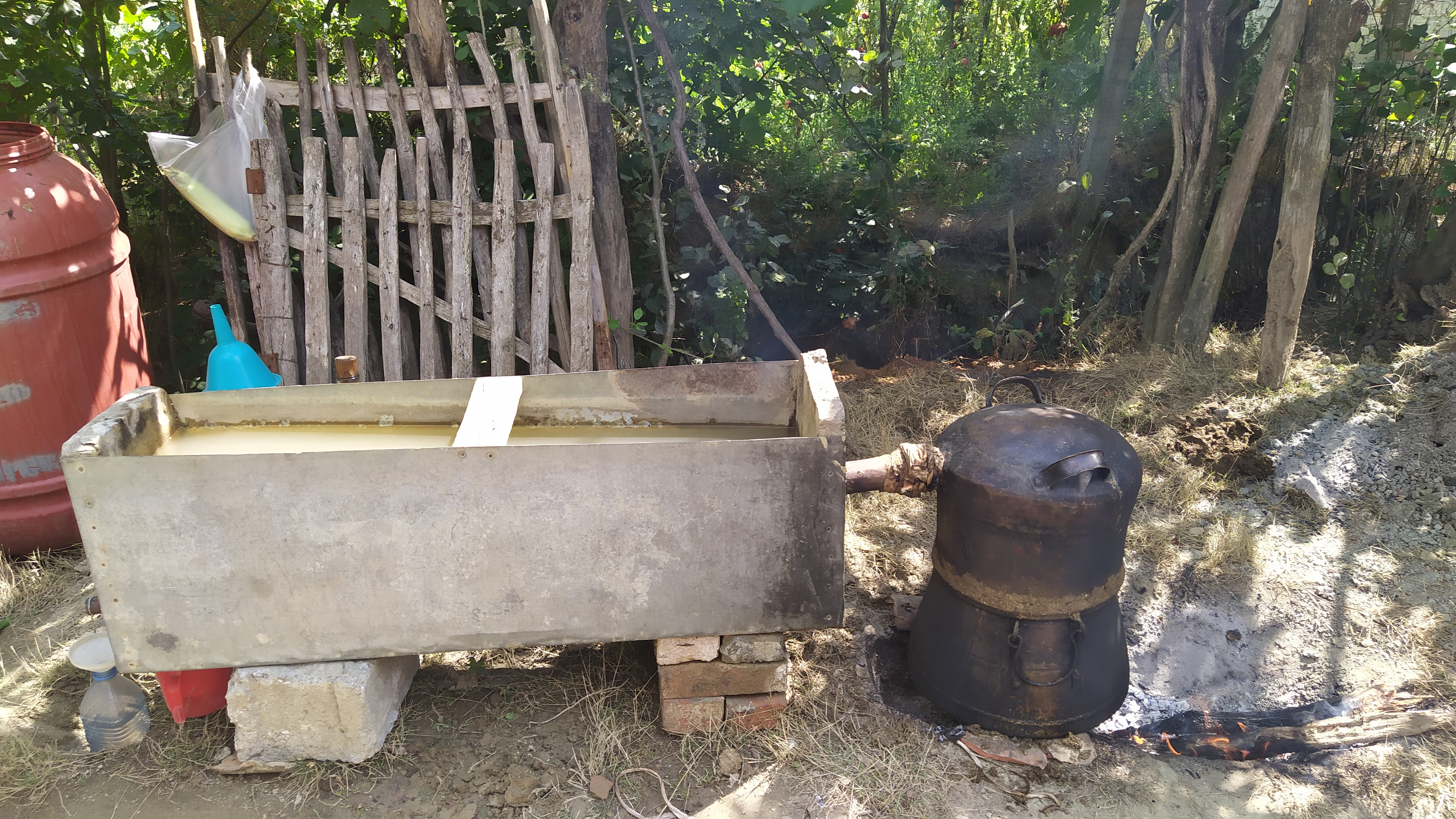 Brandy production